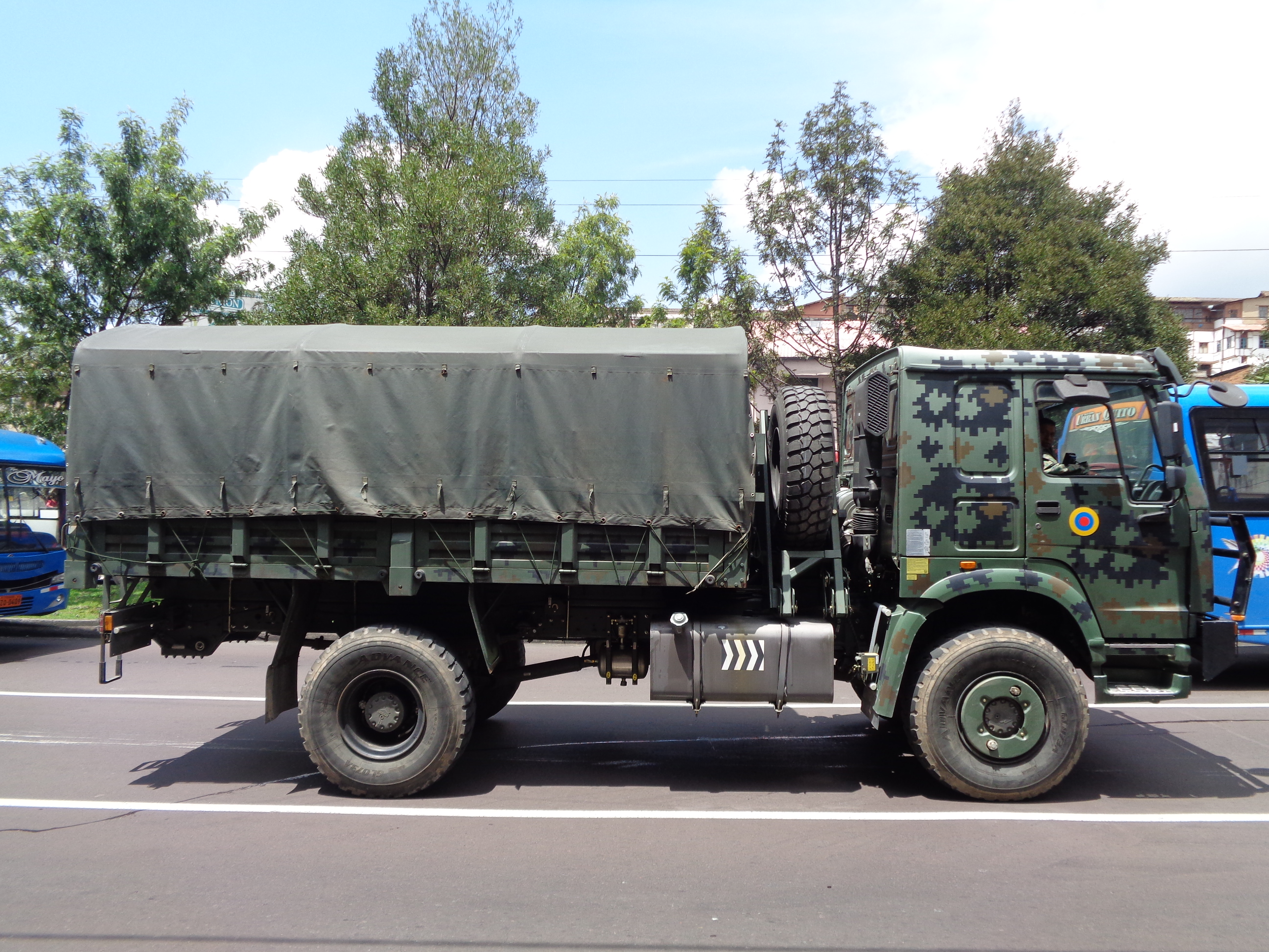 Calle Pichincha, Quito Historic Center of Quito Fuerzas Armadas del Ecuador Military equipment of Ecuador Armed Forces of Ecuador truck, UNESCO World Cultural Heritage Site Centro Histórico, Quito Photography by David Adam Kess